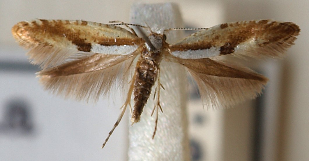 Argyresthia ephippiella